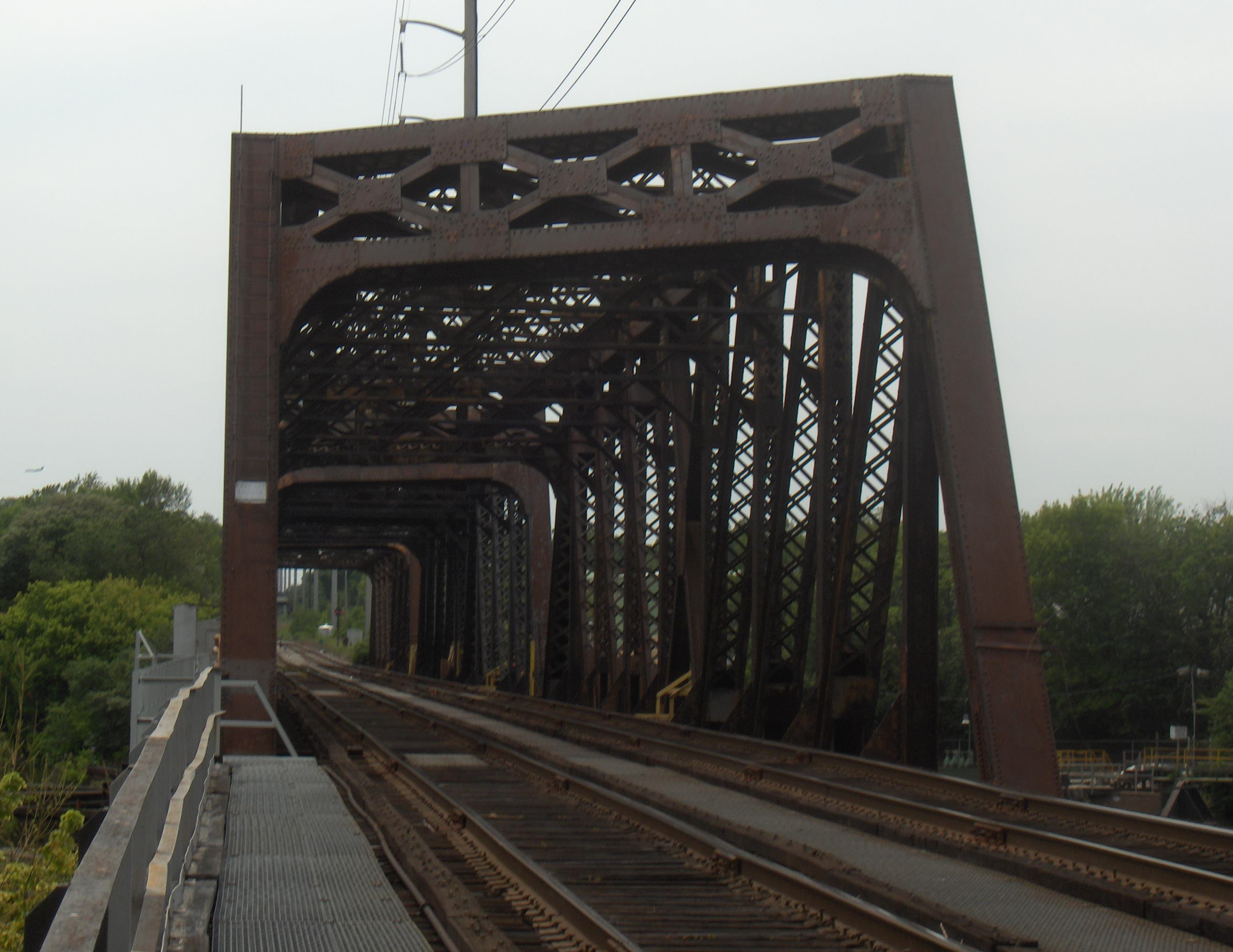 The Baltimore and Ohio Railroad Bridge, built in 1910 as a two track, swing bridge across the Schuylkill River in the Grays Ferry neighborhood in Philadelphia, Pennsylvania. Now a CSX Philadelphia Subdivision bridge. View from the CSX Philadelphia Terminal, looking southwest.